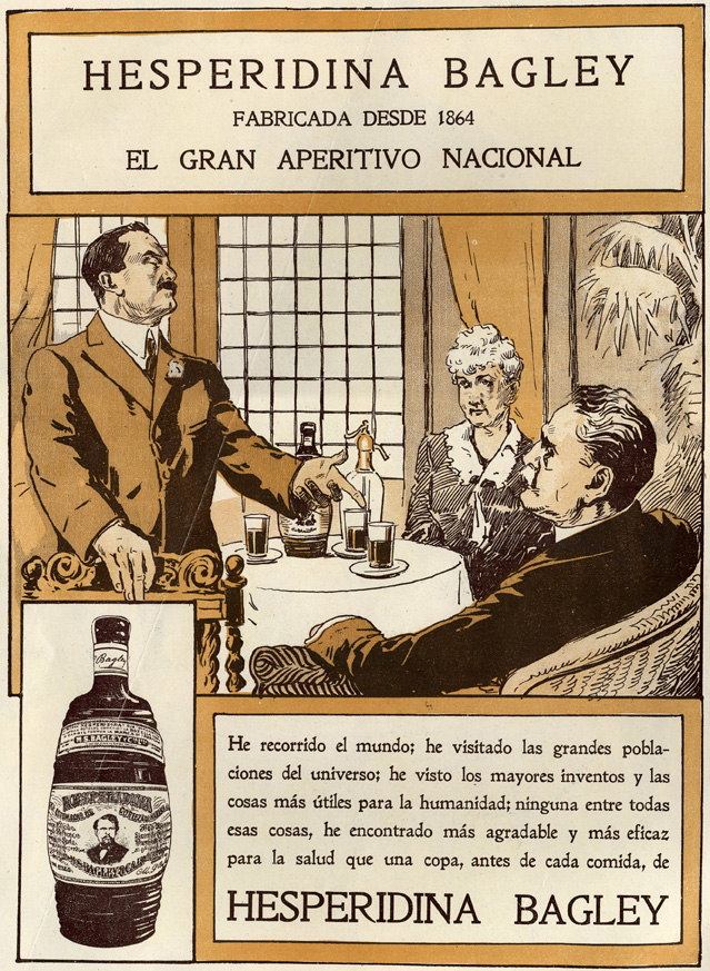 Ad for the Hesperidina liqueur, published on Caras y Caretas magazine of Argentina